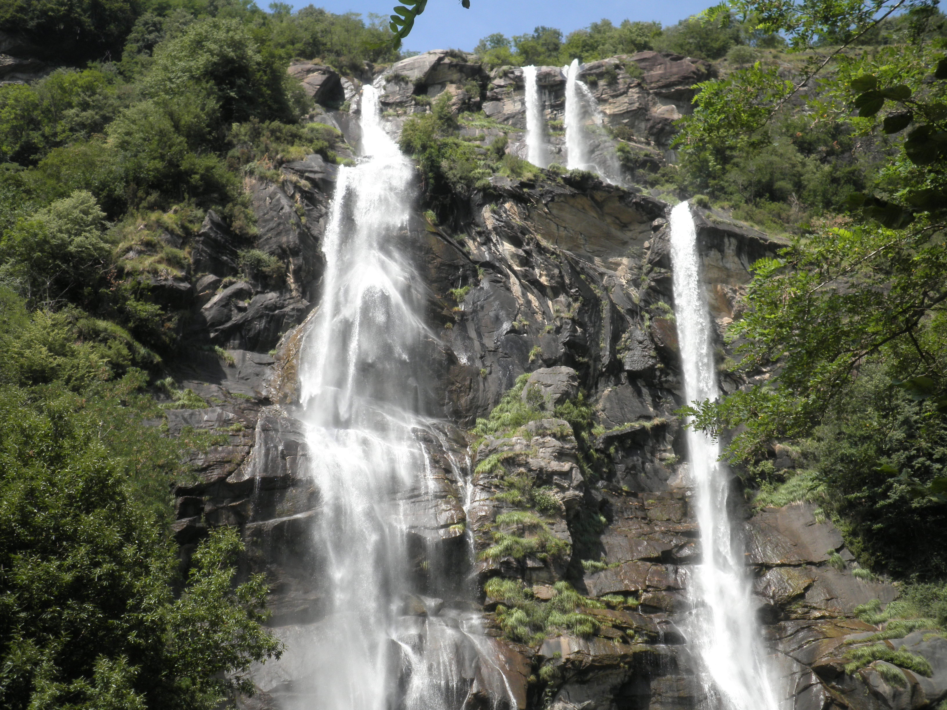 Waterfall which is apparently called Cascade Acquafraggia. From 2015-07.